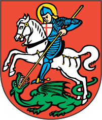 new official coat of arms of Stein am Rhein, Switzerland, valid since February 2003